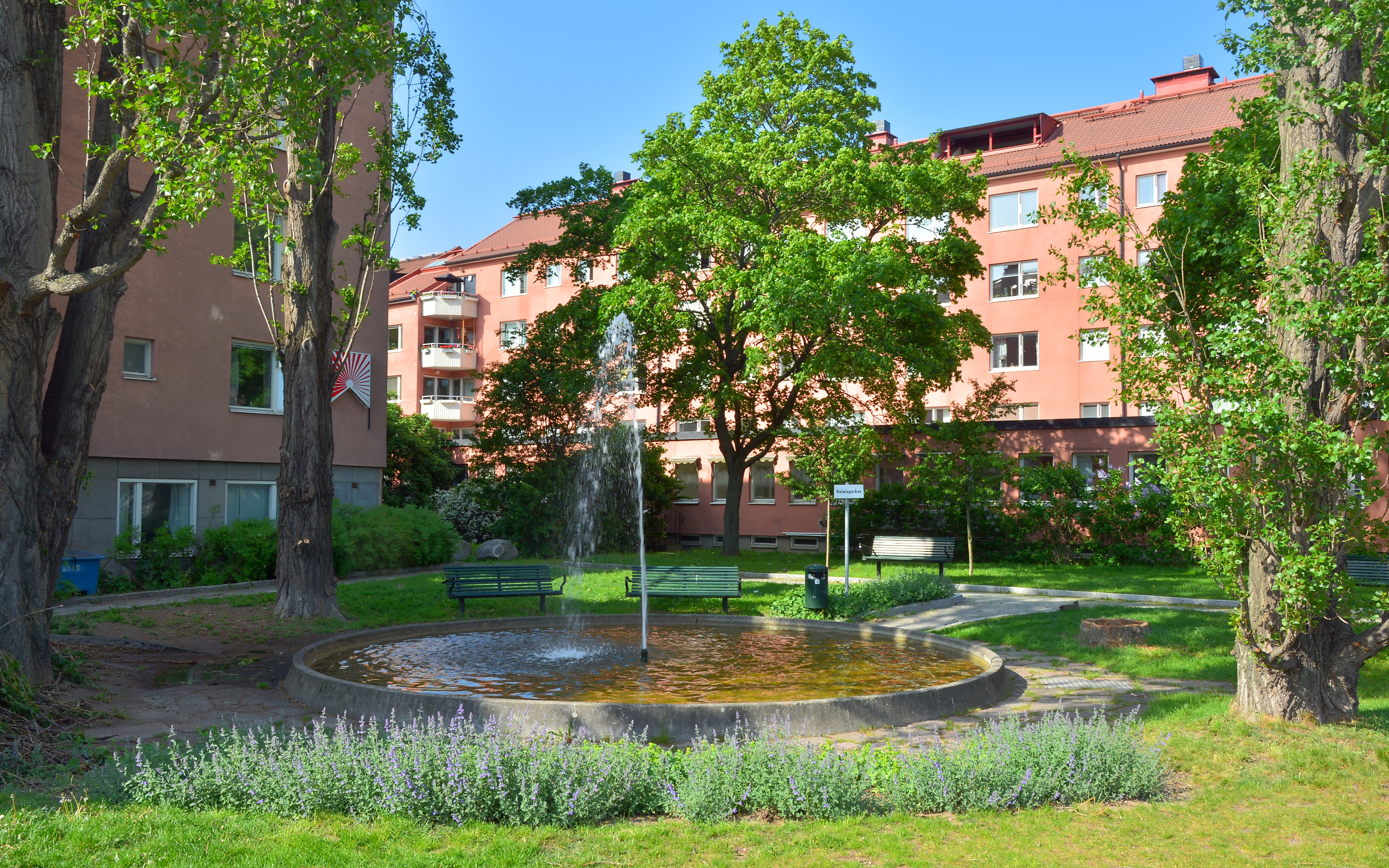 Holmia Park on Kungsholmen in Stockholm, Sweden.